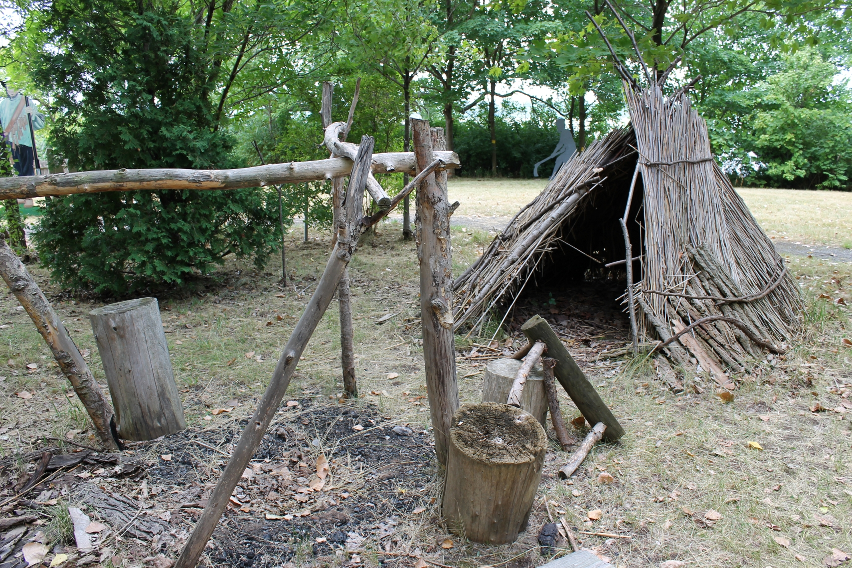 Recreation of a Native American hut outside the mission compound at Sainte Marie Among the Iroquois.